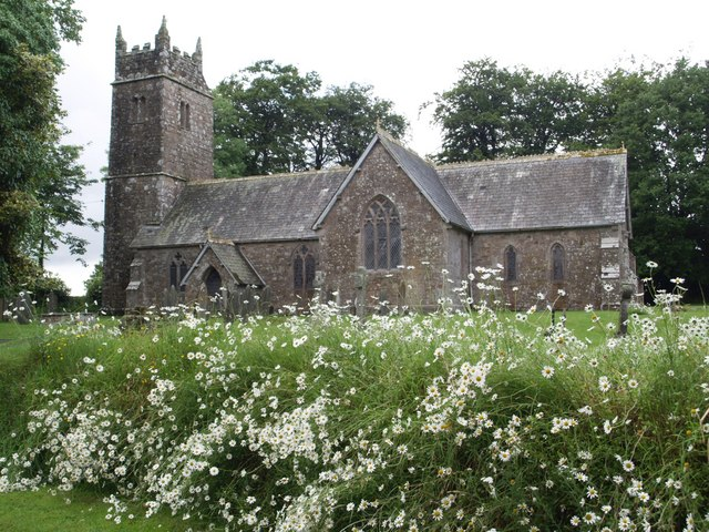 SS Peter and James parish church, Halwill, Devon, seen from the south